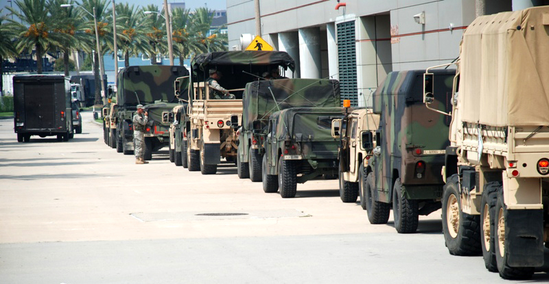 Members of the Louisiana National Guard’s 256th Infantry Brigade Combat Team stage their vehicles in Lot J next to the Ernest Morial Convention Center. These Soldiers are activated for security missions in support of hurricane operations throughout the state.